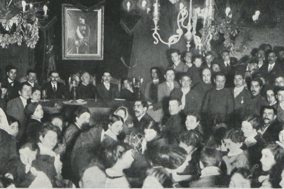 Tarragona requete indoors rally